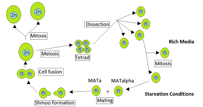 This is a figure outlining yeast mating and tetrad formation. meosis, metosis